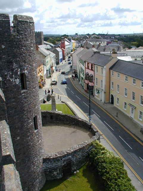 Pembroke Main Street from the castle